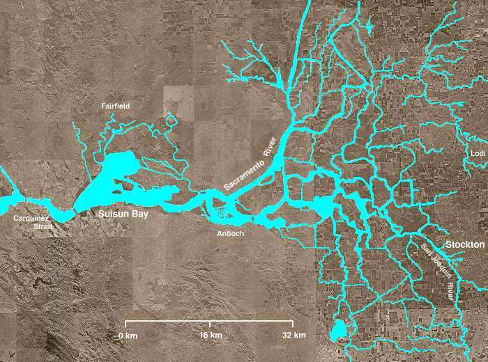 The Sacramento-San Joaquin River Delta of California - covering the right half of the map. The Sacramento River flows into the delta from the north and the San Joaquin River from the south. The San Joaquin and Sacramento rivers meet just west of Antioch and their confluence continues westward into Suisun Bay and then the Carquinez Strait (both on left of map). The Mokelumne River enters from the east, flows northwest from Lodi, picks up several tributaries including the Cosumnes River, then turns south, meandering among several delta sloughs and waterways, ultimately flowing into the San Joaquin River in the center of the delta, northeast of Antioch. The "lake-like" body of water near the bottom of the image is Clifton Court Forebay, where pumps lift water to be sent southward in the California Water Project canal. Several other open areas in the right half of the image are "islands," many of which have elevations well below sea level. Waterways (in blue) are clearly visible, as are fields and croplands (which appear as patchwork), and urban areas (especially Stockton).